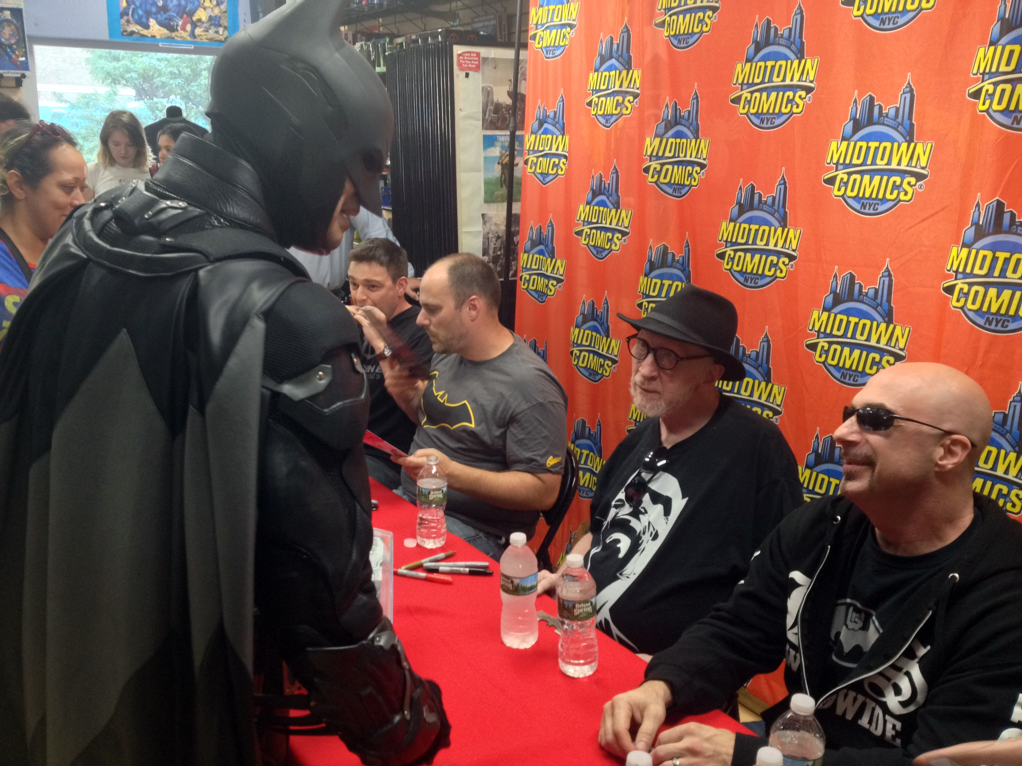 A Batman cosplayer meets noted comics creators during an appearance at Midtown Comics Downtown September 17, 2016, the third annual Batman Day, when DC Comics celebrates the creation of the character Batman. Seated behind the table from left to right: writer Scott Snyder, writer Tom King, writer/artist Frank Miller and artist Greg Capullo. This photo was created by Luigi Novi. It is not in the public domain, and use of this file outside of the licensing terms is a copyright violation.